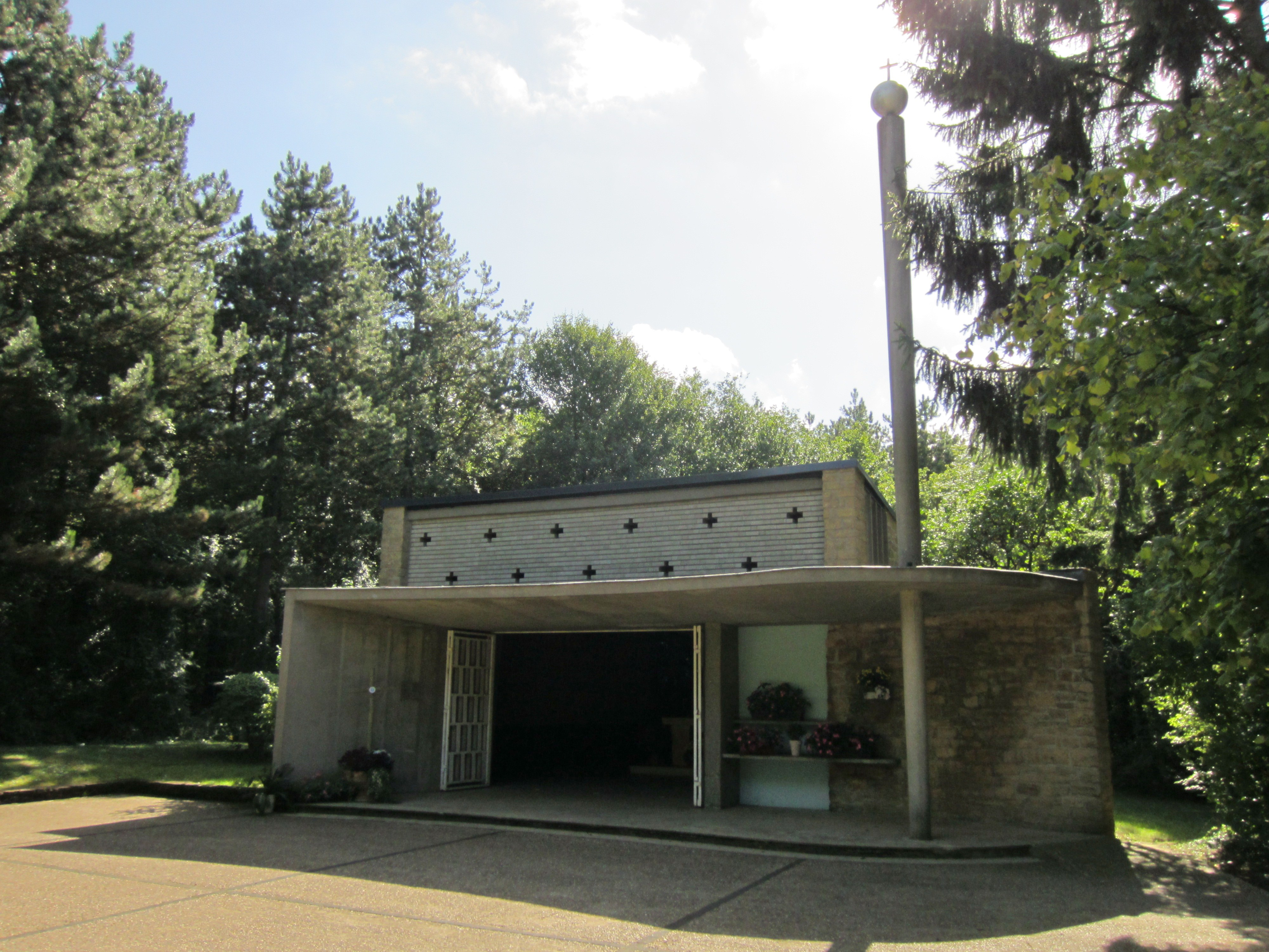 Description chapelle gros chene Lorry Metz Date14 September 2011Sourcemon appareil photoAuthorAimelaimePermission(Reusing this file) chapelle gros chene Lorry Metz